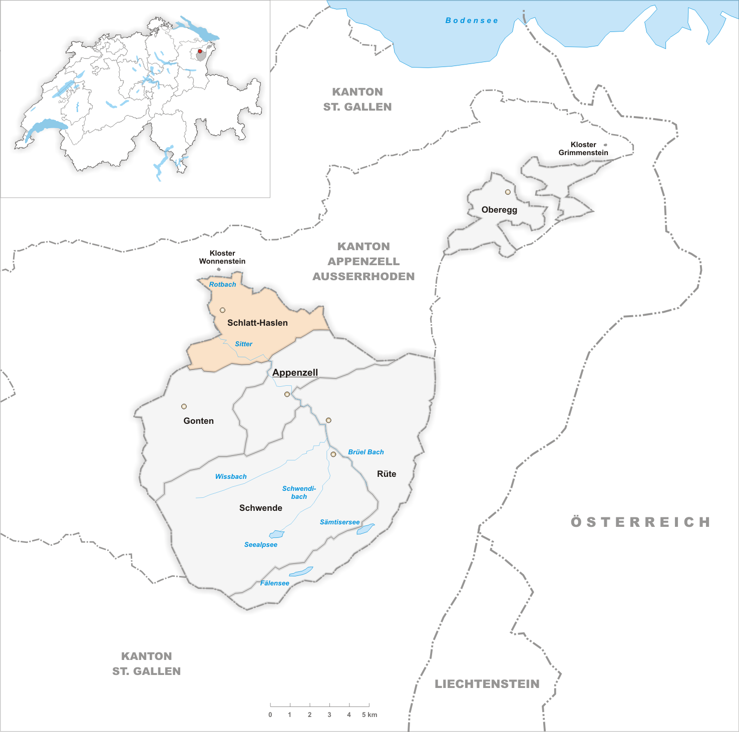 Municipality of Schlatt-Haslen